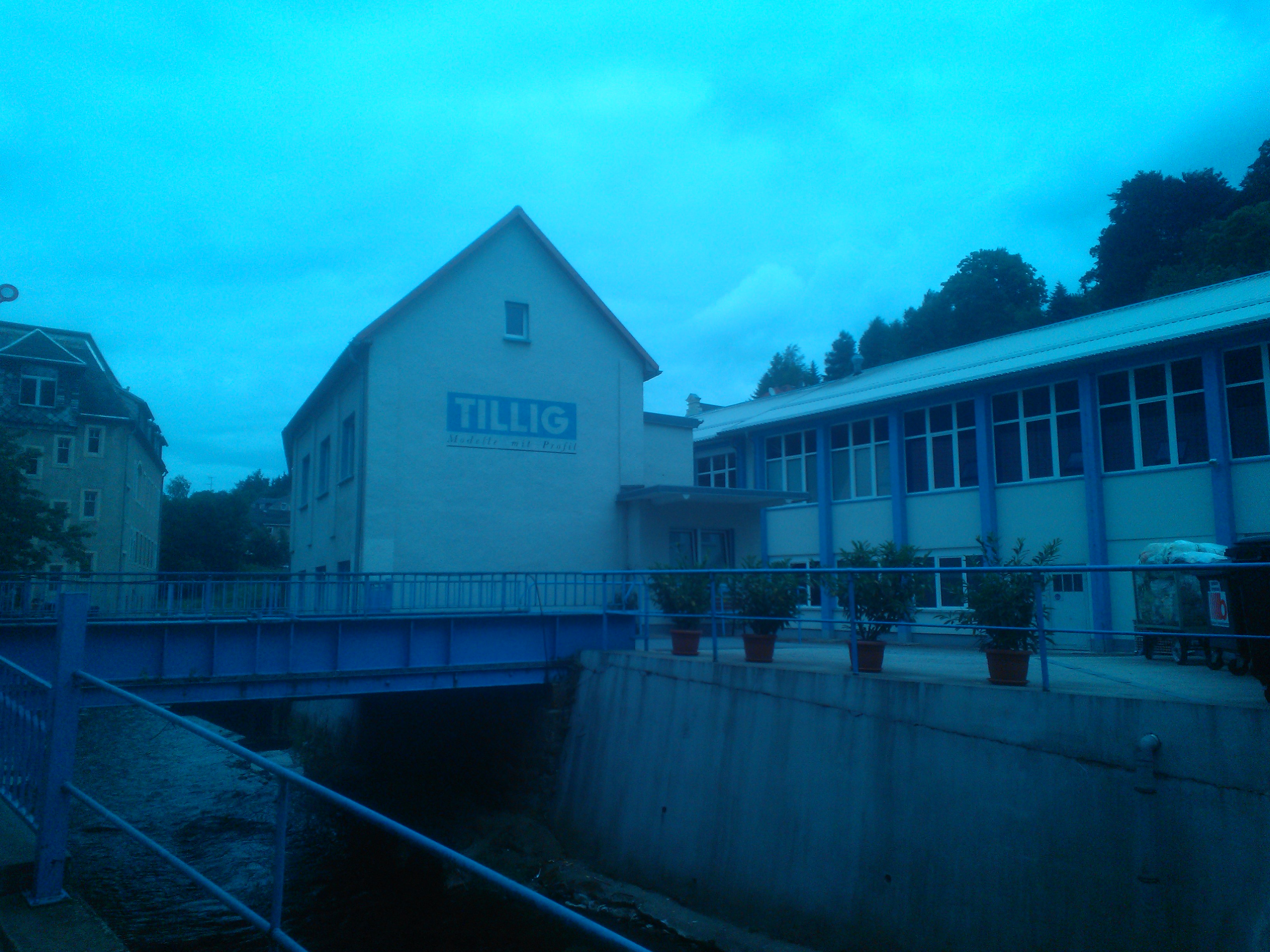 This is the Tillig factory in Sebnitz